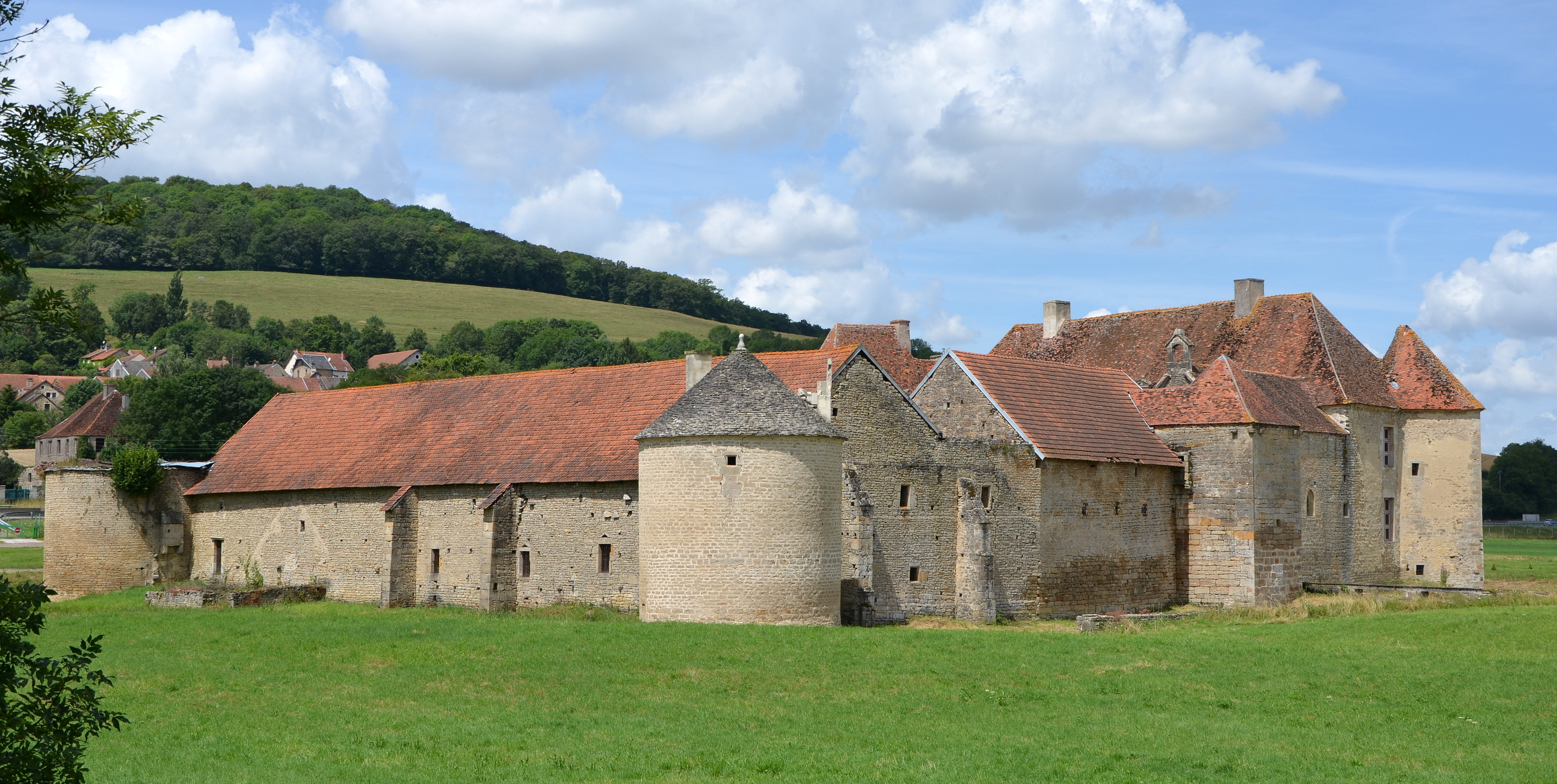 Eguilly castle, Burgundy, FRANCE.